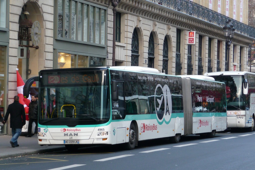 Man Lion's City GL on RoissyBus line at Opéra